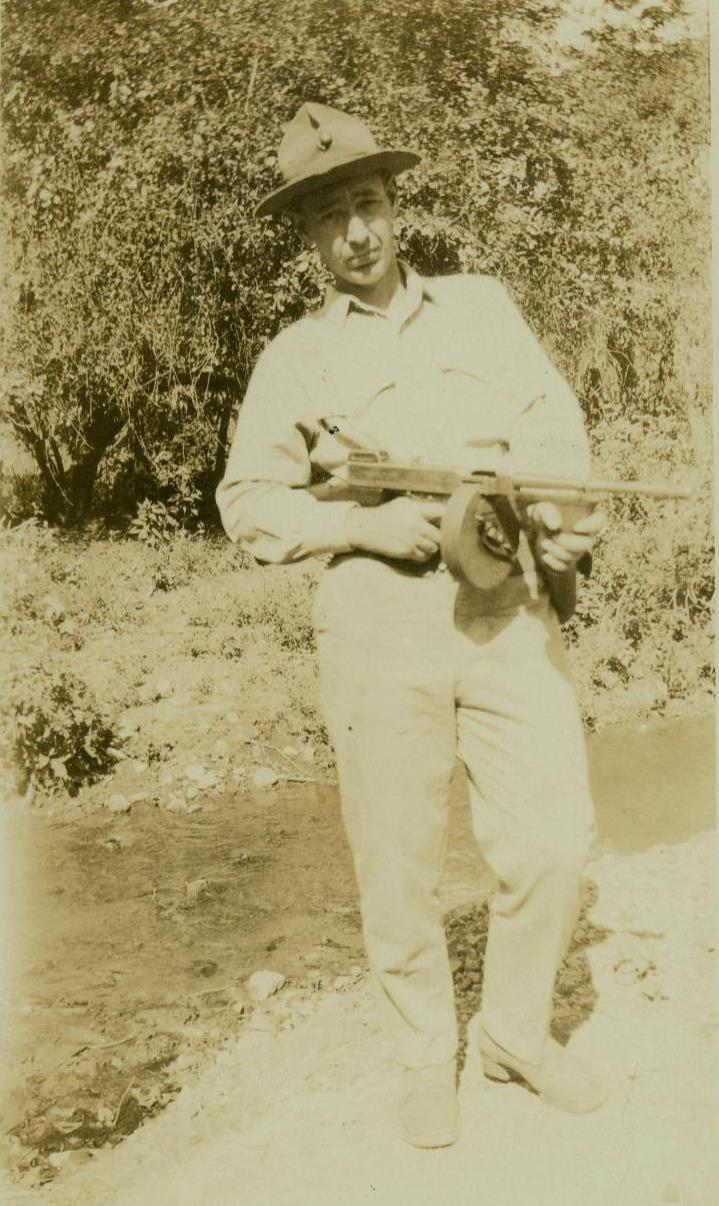 Along with seven others, Joseph McCarty was killed in action against armed bandits near Ocotal, Nicaragua on 31 December 1930. From the Joseph A. McCarty Collection (COLL/616) at the Marine Corps Archives and Special Collections OFFICIAL USMC PHOTOGRAPH